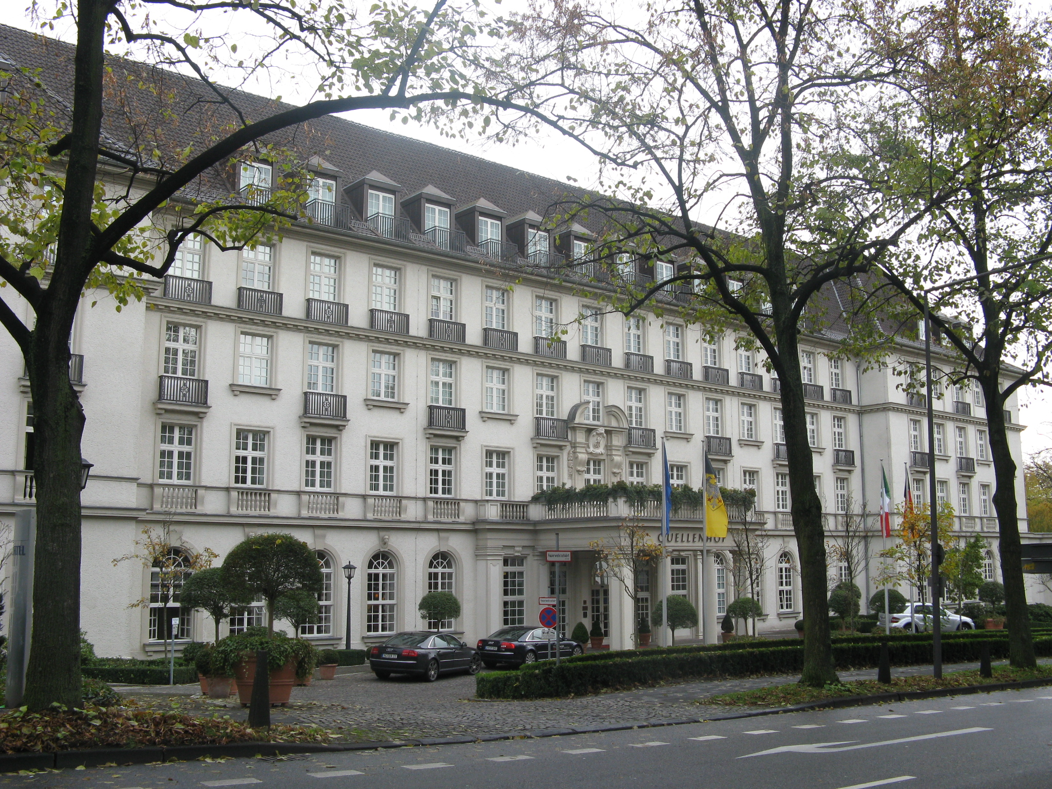 Quellenhof Hotel and Spa, Aachen, Hauptfront